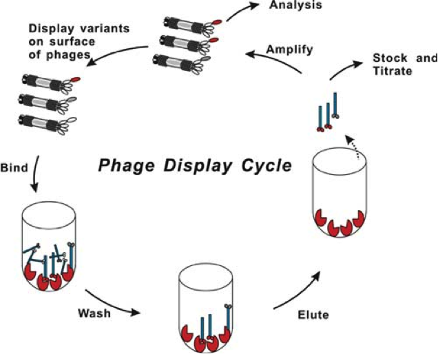 Phage display technique. A library of phage is first place against a surface for binding. Then a washing step is required to wash away undesired peptide bonds. Elusion unbinds the desired peptide bonds, and the peptide bonds are sent to analyze